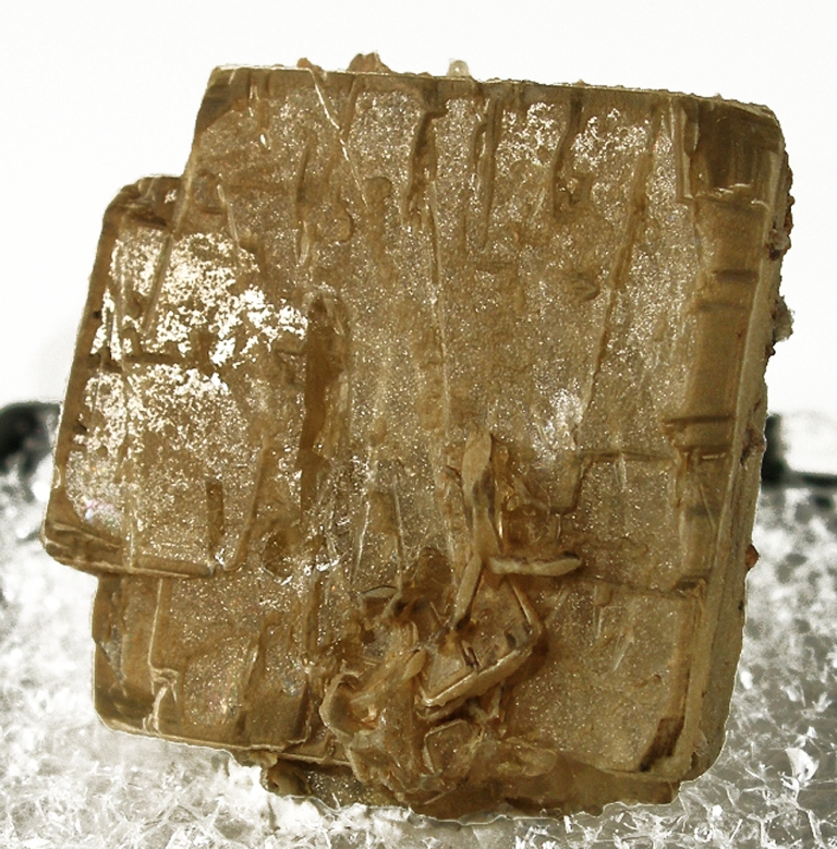 Leucophanite Locality: Poudrette quarry (Demix quarry; Uni-Mix quarry; Desourdy quarry), Mont Saint-Hilaire, Rouville RCM, Montérégie, Québec, Canada (Locality at ) Size: 2.1 cm x 2.1 cm x 0.8 cm A huge crystal for this species, which normally is found in crystals of 1 cm and under. Although opaque and not gemmy as smaller ones, this is of a large size and has incredible textbook form and symmetry. Obtained directly from the collector, Gilles Haineault. Ex. Martin Zinn Collection.